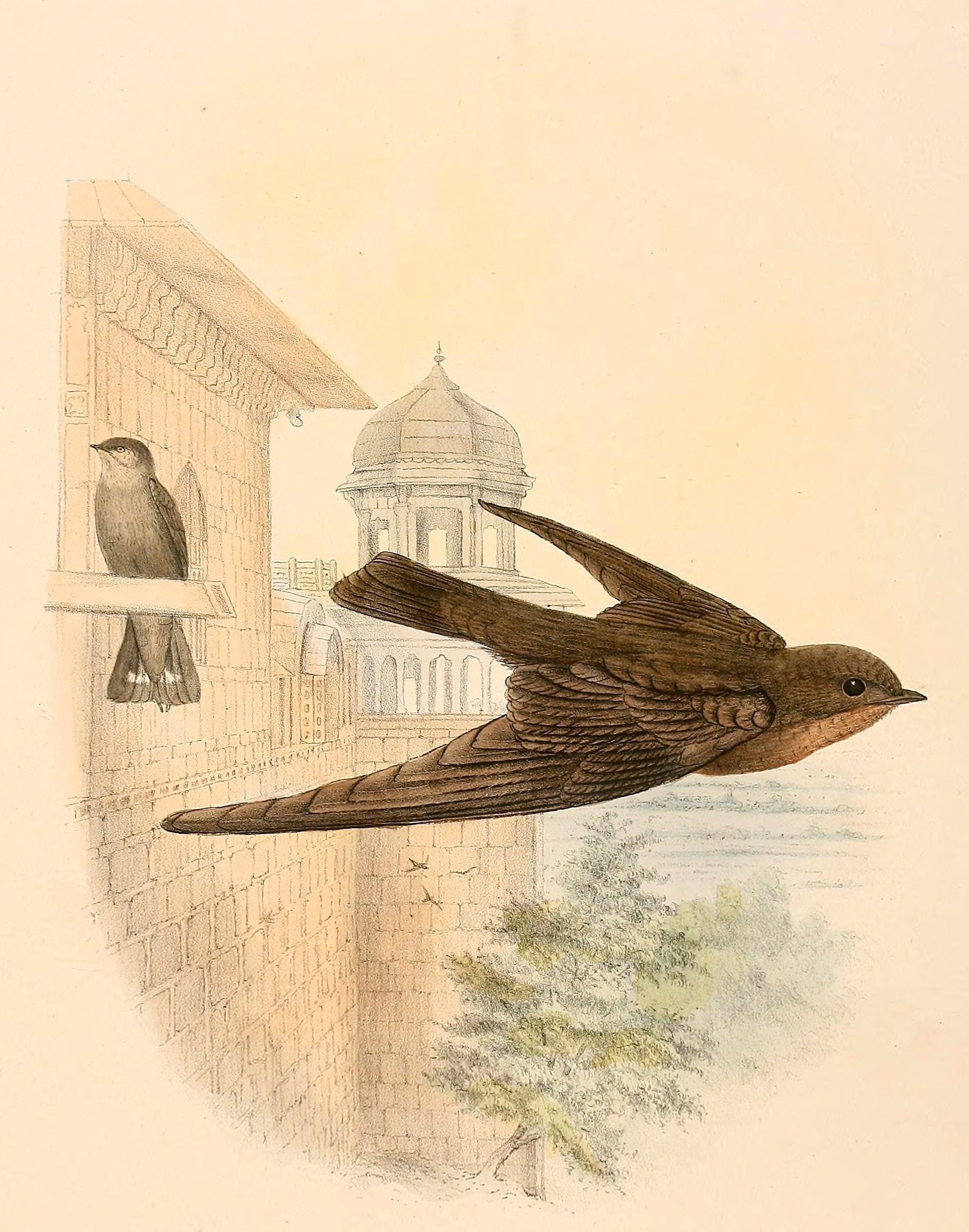 « Cotile concolor » = Ptyonoprogne concolor (Dusky Crag Martin)